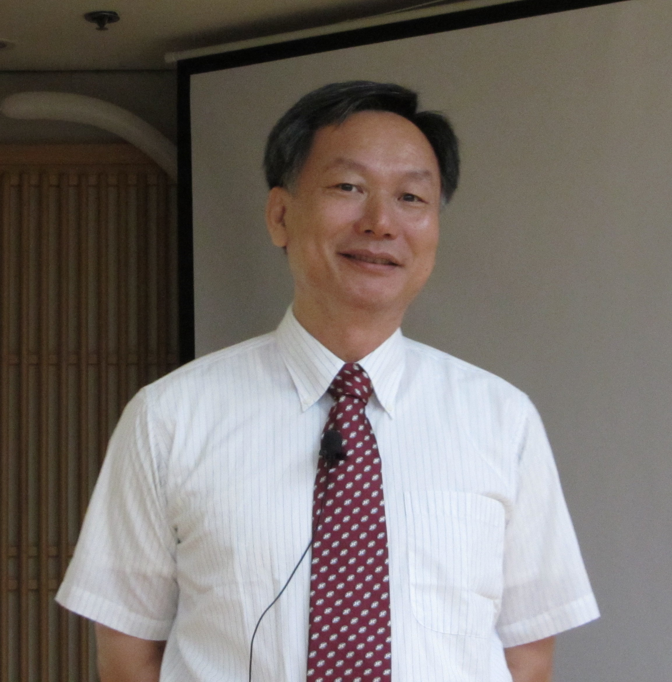 Taiwanese meteorologist Ming-Dean Cheng.